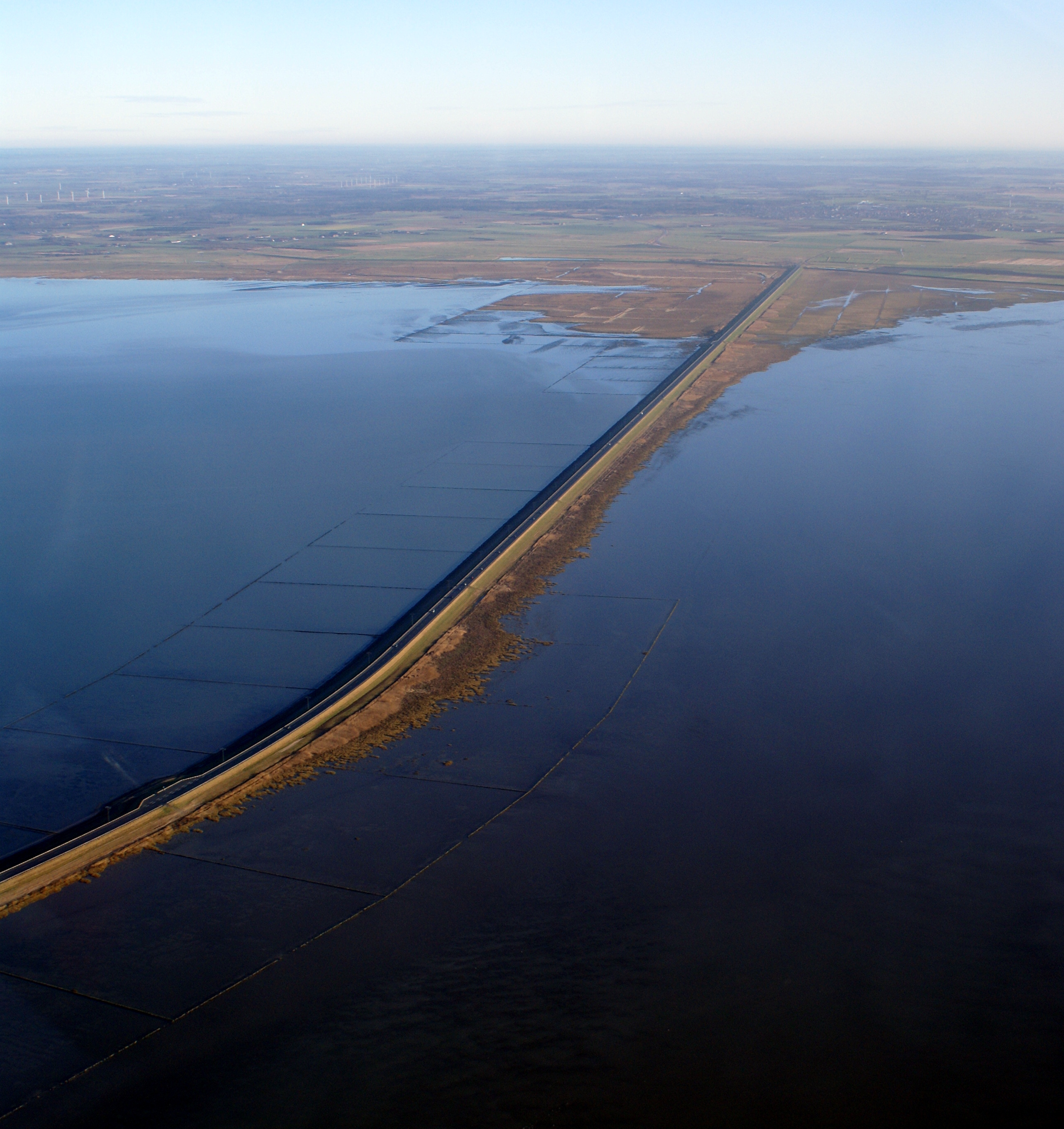 The Rømø Damm